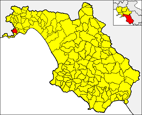 Locator map of the municipality of Scala (red) within the Province of Salerno